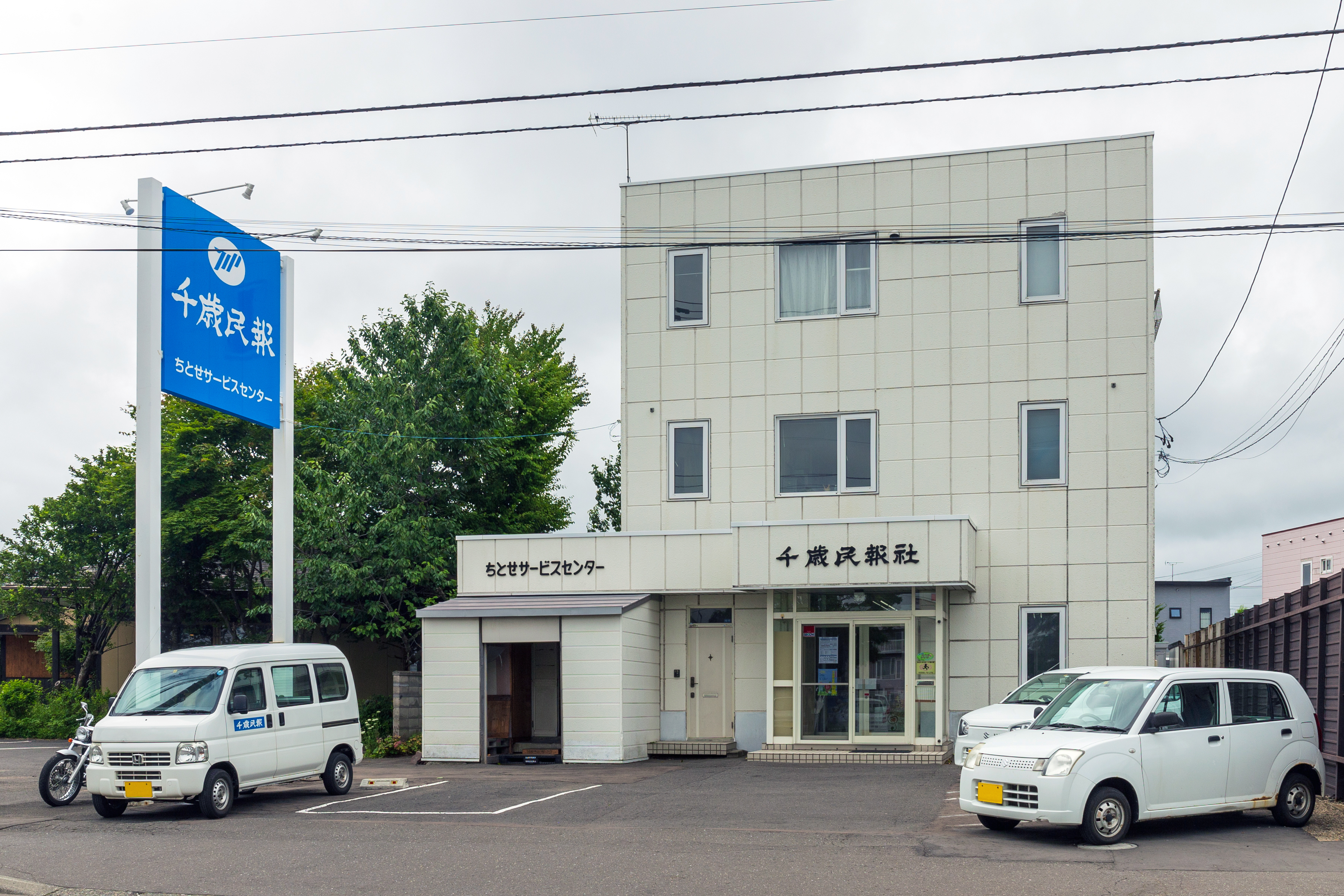 Headquarters of the Chitose Minpo newspaper in Chitose City, Hokkaido, Japan